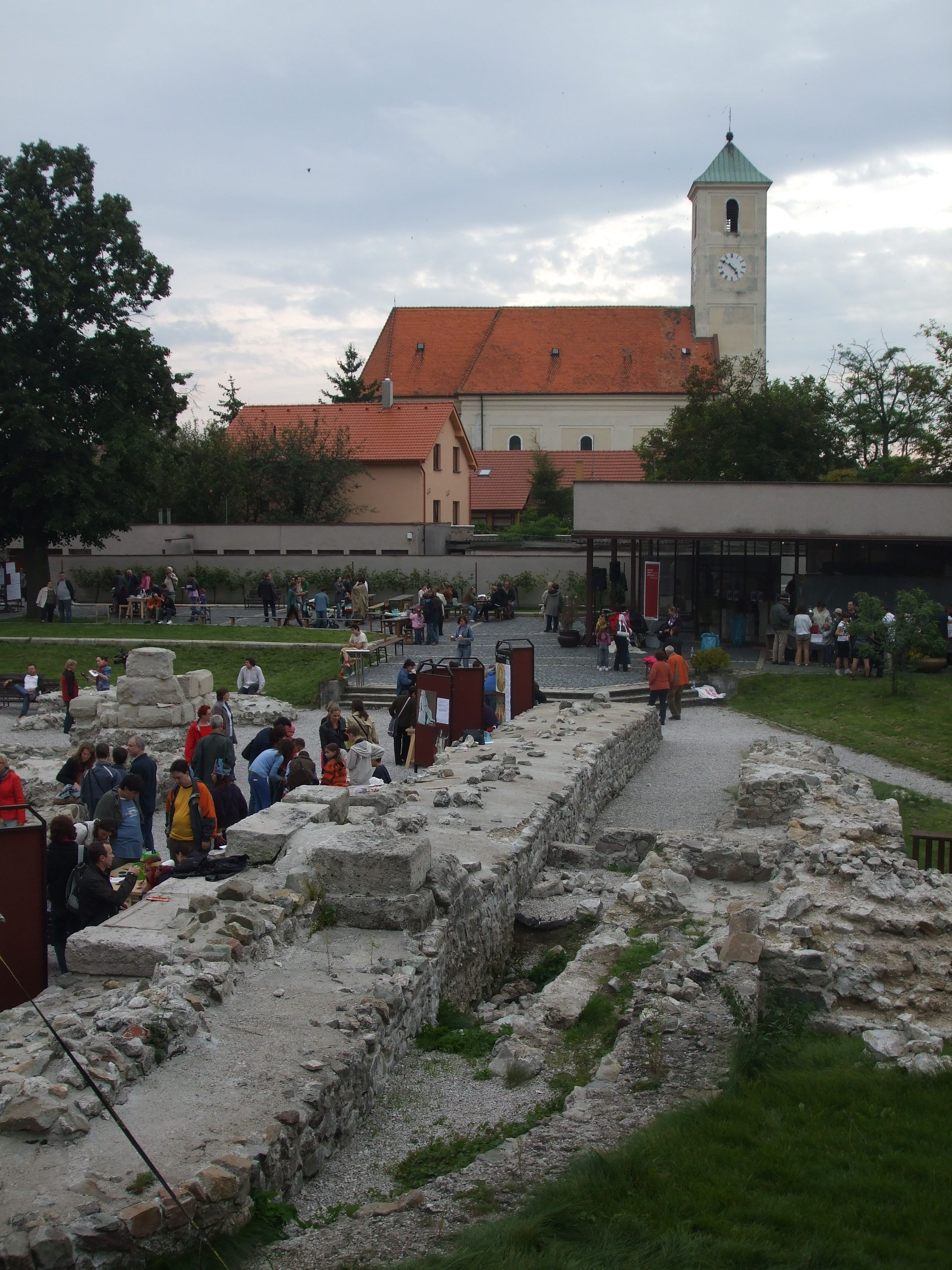 Gerulata in Rusovce (Bratislava, Slovakia). Today there were replication of Roman games (12. year).